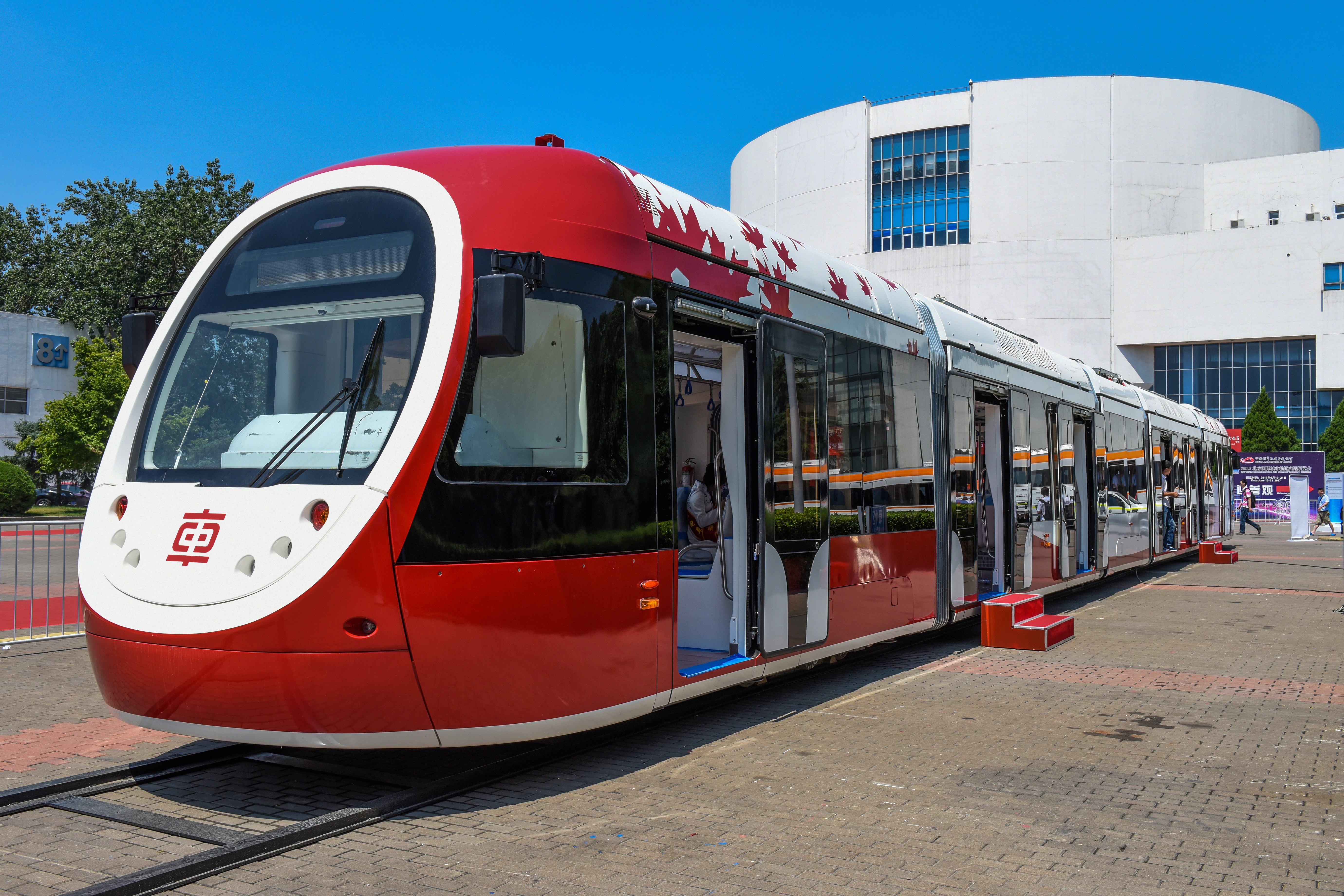 This tram has maple livery, but isn't for Canada - Fragrant Hills instead, where maple ISN'T its main force.